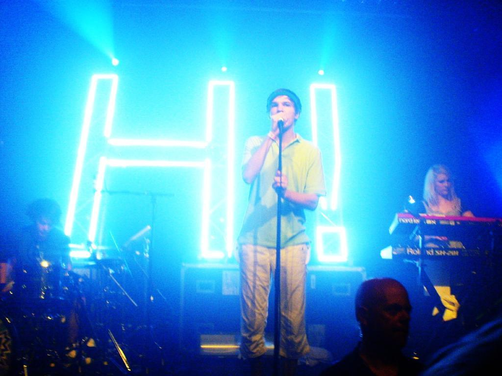 James Smith from „Hadouken!“ with girlfriend Alice Spooner and drummer Nick Rice in the background.